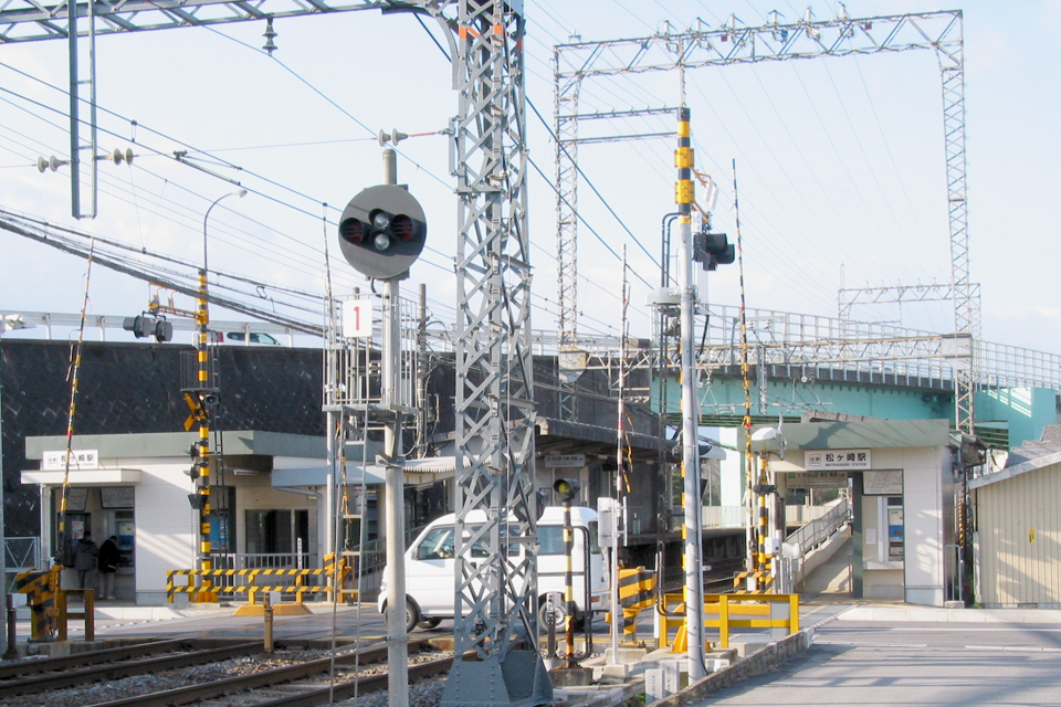 Matsugasaki Station Yamada Line, Kintetsu. Place:Matsusaka City Mie Pref. Japan